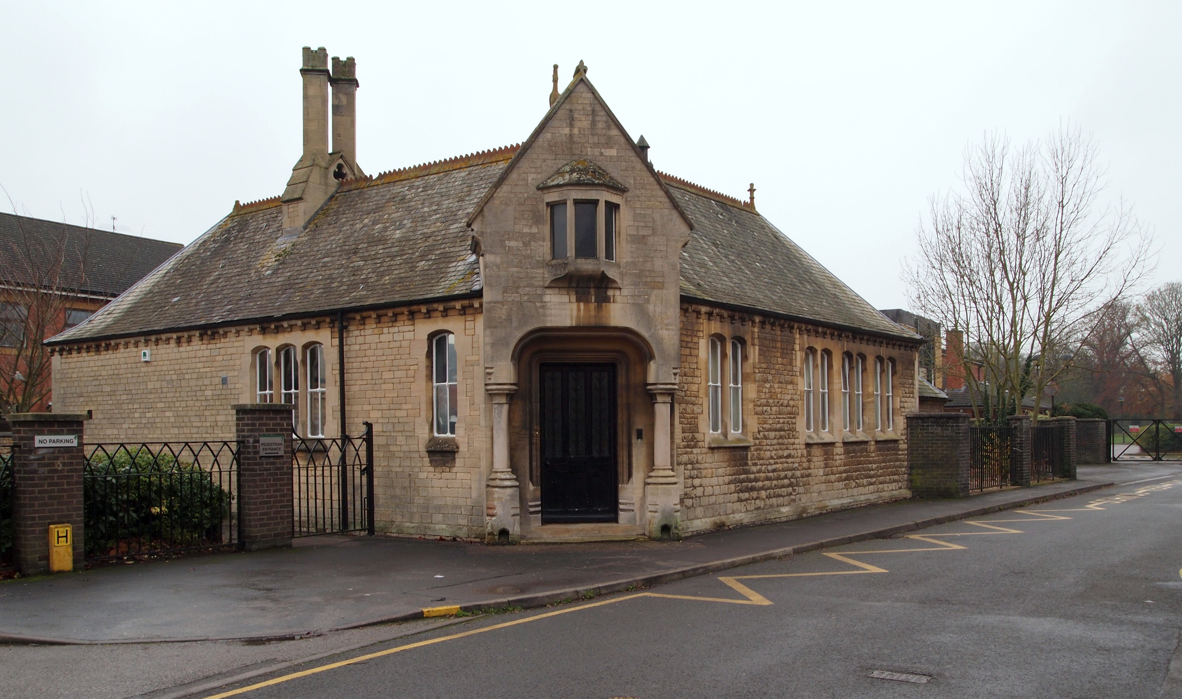 "This former school annexe to Kesteven and Sleaford High School. "Kirk and Parry of Jermyn Street" are listed in directories from the mid C19th and Kirk & Parry also designed a flour mill off Jermyn Street. There is some suggestion therefore that this particular building may have served as the ‘local’ office for their architectural work. Now in use as offices, this Grade II-listed building occupies a lodge house location/position adjacent to the entrance to this particular High School behind it. The closed end of the cul-de-sac (ahead) is predominantly residential, whereas the town centre lies behind the photographer" (Geograph description).